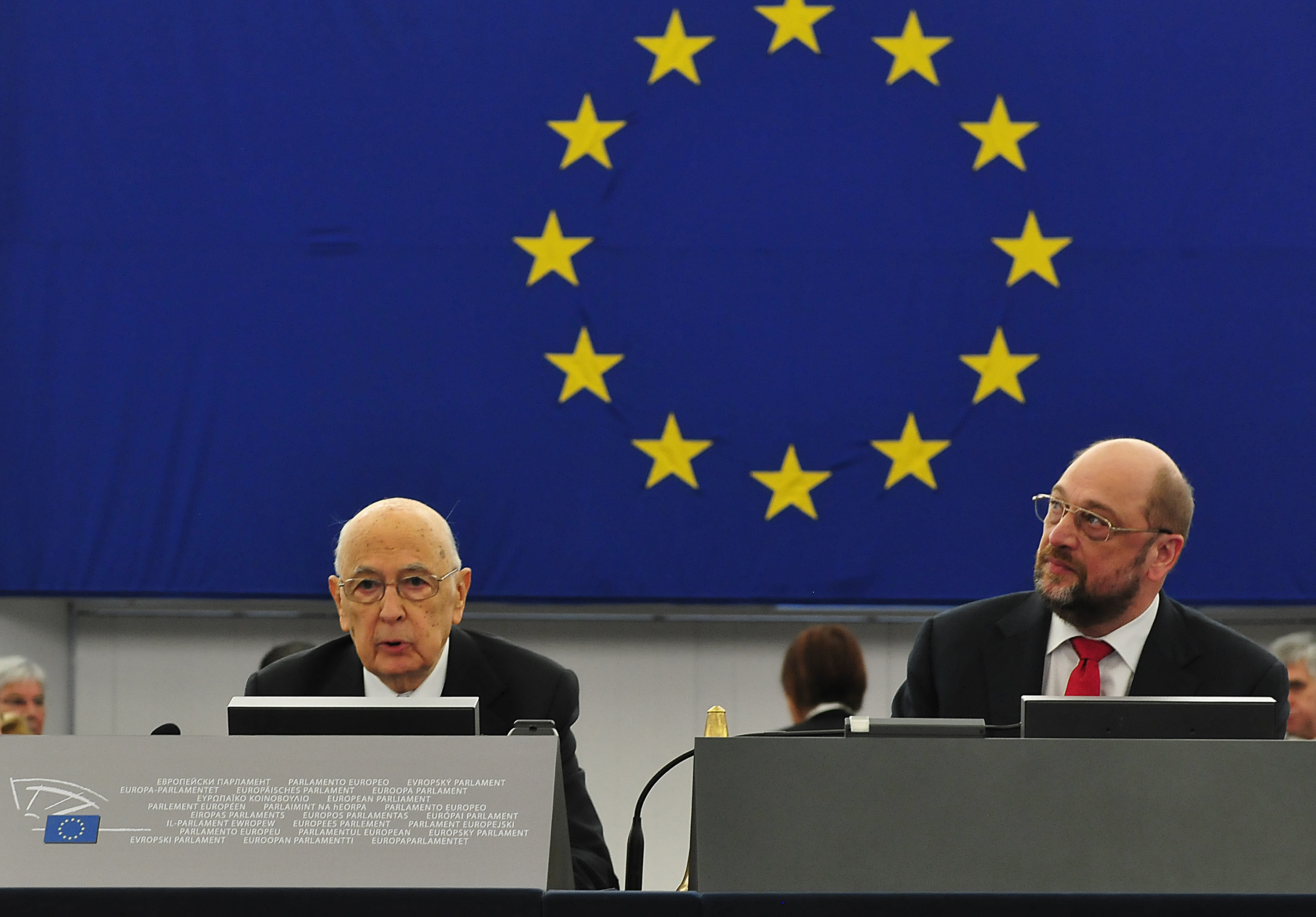 Italian President Giorgio Napolitano and President of European Parliament, Martin Schulz European Parliament 2014 3.–7. February 2014, StrasbourgThis photo has been created within the project "WIKI loves parliaments / European Parliament". Usage and Help If you have any questions concerning this picture or how to use it, feel free to Personality rights warningAlthough this work is freely licensed or in the public domain, the person(s) shown may have rights that legally restrict certain re-uses unless those depicted consent to such uses. In these cases, a model release or other evidence of consent could protect you from infringement claims.